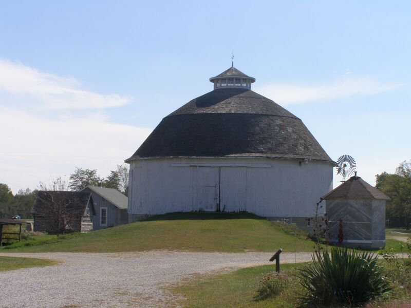 Burt Leedy, Round Barn, Fulton County History Museum, Rochester, Indiana